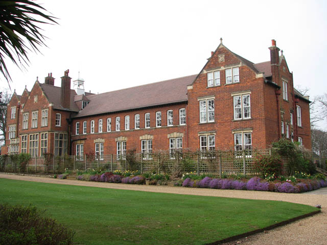 Gresham's Senior Prep The school was founded in 1555 by Sir John Gresham, who converted Holt’s Manor House into a Free Grammar School as a result of Henry VIII’s suppression of the Monasteries. It survived the Great Fire of 1708 which destroyed most of medieval Holt and was extensively enlarged and refurbished in Victorian times. Renamed ‘Old School House’ it currently serves as home to the Pre-Prep School. At the turn of the twentieth century, Gresham’s was refounded under the direction of a new and innovative headmaster, George Howson and the School moved to the existing site. The Senior School and Prep School are presently located along both sides of Cromer Road on the eastern edge of Holt. There are four boarding houses for boys and three for girls and a wide range of buildings which include Big School, the School Chapel, the Auden Theatre, the Cairns Centre, the School Library, the Music Centre, the Central Block, the Thatched Classrooms, the Reith Laboratories, the Biology Building, the Armoury, and others. In September 2005, Gresham's was one of the leading British schools.